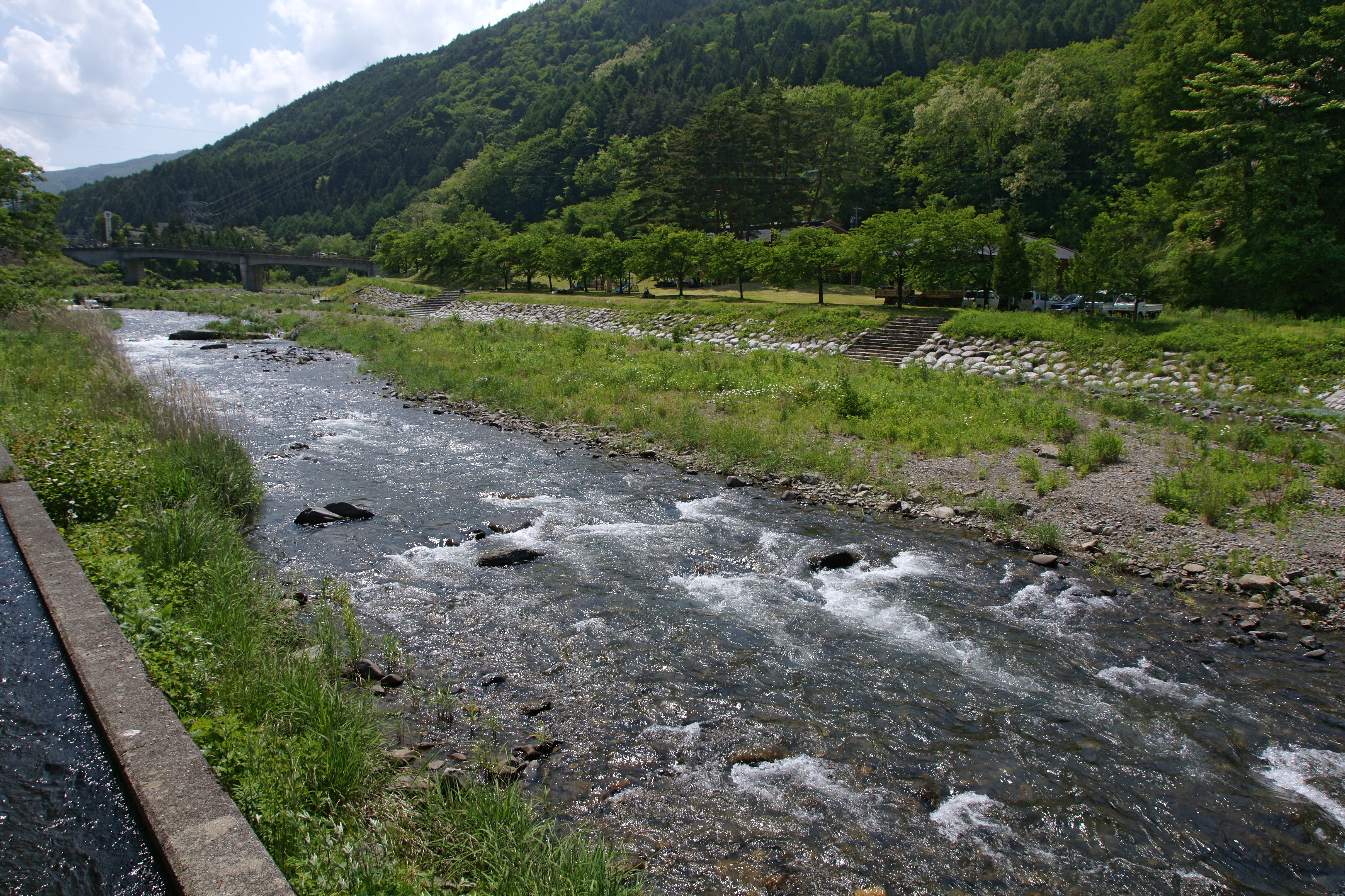 Narai River, Kiso-Hirasawa, Shiojiri, Nagano prefecture, Japan